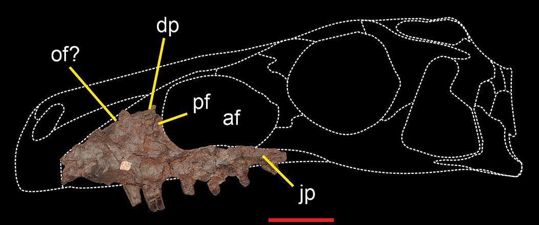 Maxilla of Sanjuansaurus gordilloi (PVSJ 605).